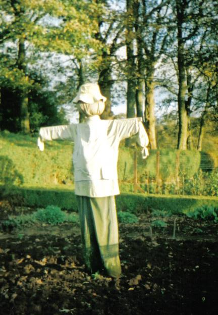 A scarecrow in the kitchen garden at Wester Kittochside farm near Carmunnock, Glasgow